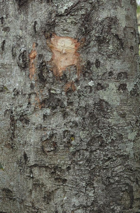 Acrocarpus fraxinifolius is one the tree of Western Ghats, India. This image shows... Attributions: B. R. Ramesh, N. Ayyappan, Pierre Grard, Juliana Prosperi, S. Aravajy, Jean Pierre Pascal, The Biotik Team, French Institute of Pondicherry. Contributors:Dr. N. Ayyappan, Biotik Team, French Institute of Pondicherry.